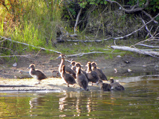 A female Greater Scaup Aythya marila with ducklings on the shore of Frame Lake, Yellowknife, NT, Canada